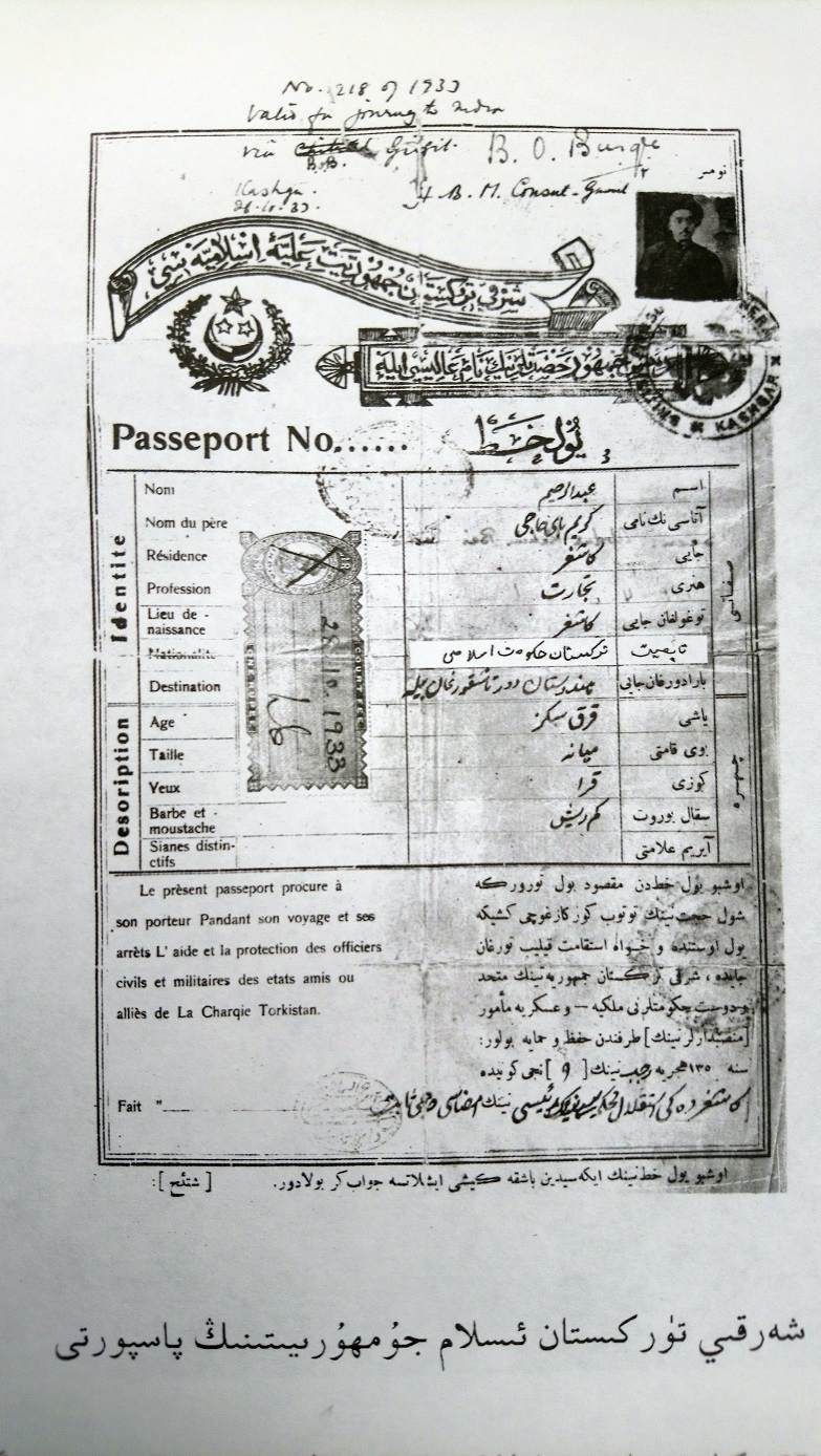 This is the first page of the Eastern Turkistan Republic passport. This image is taken from the book "History of Eastern Turkistan", by Mehmet Emin Bugra, written in 1940 and published in Ankara in 1989.